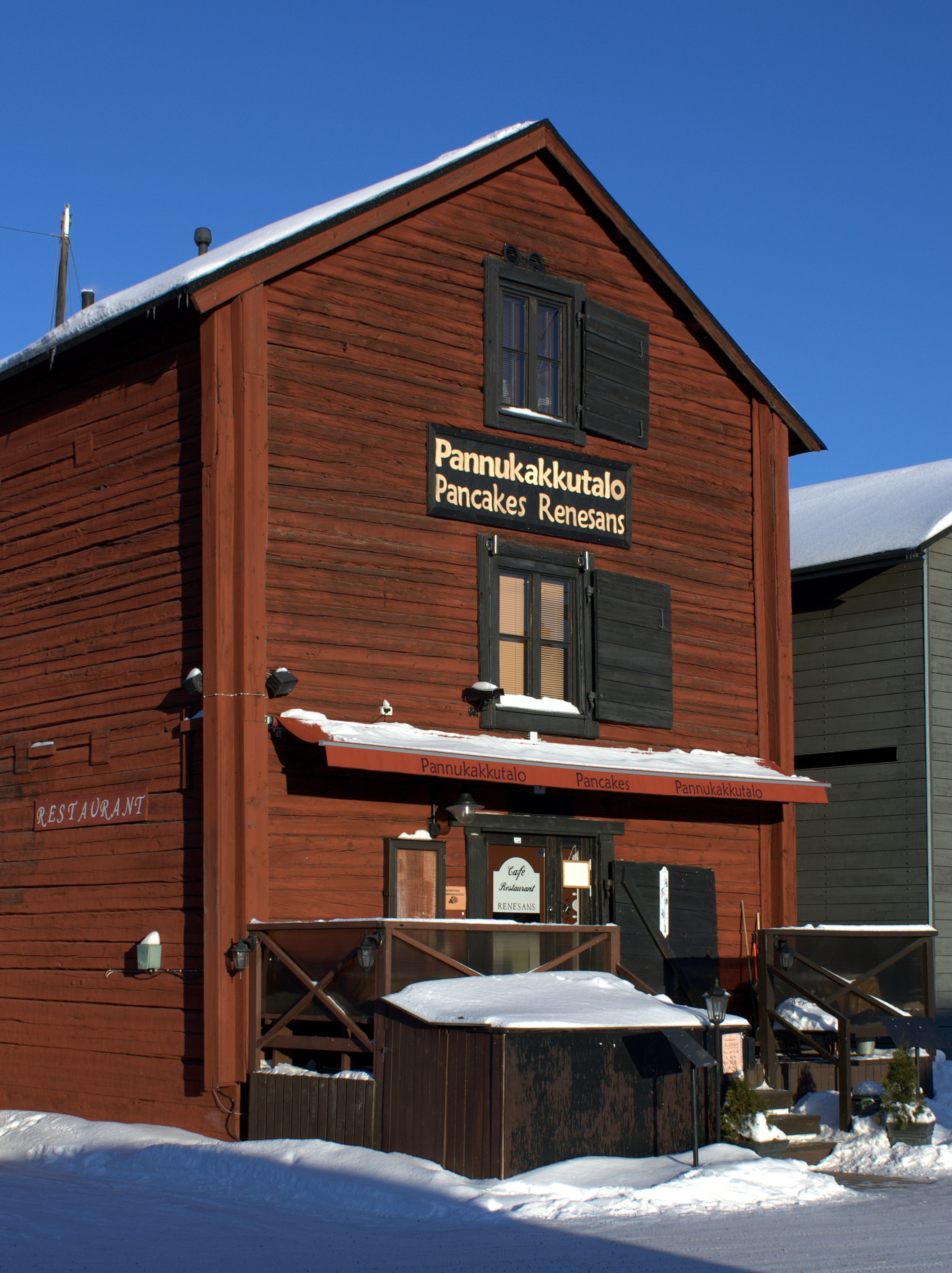 Pancake house in one of the old warehouses in the Oulu market square.